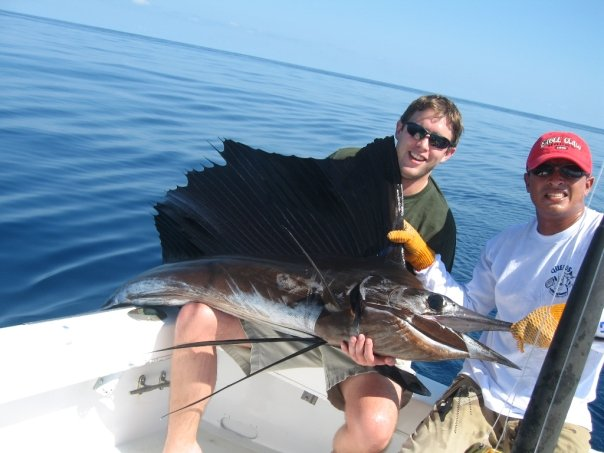 sailfish